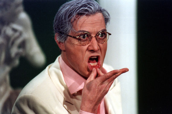 Corrado Guzzanti impersonating Gianfranco Funari